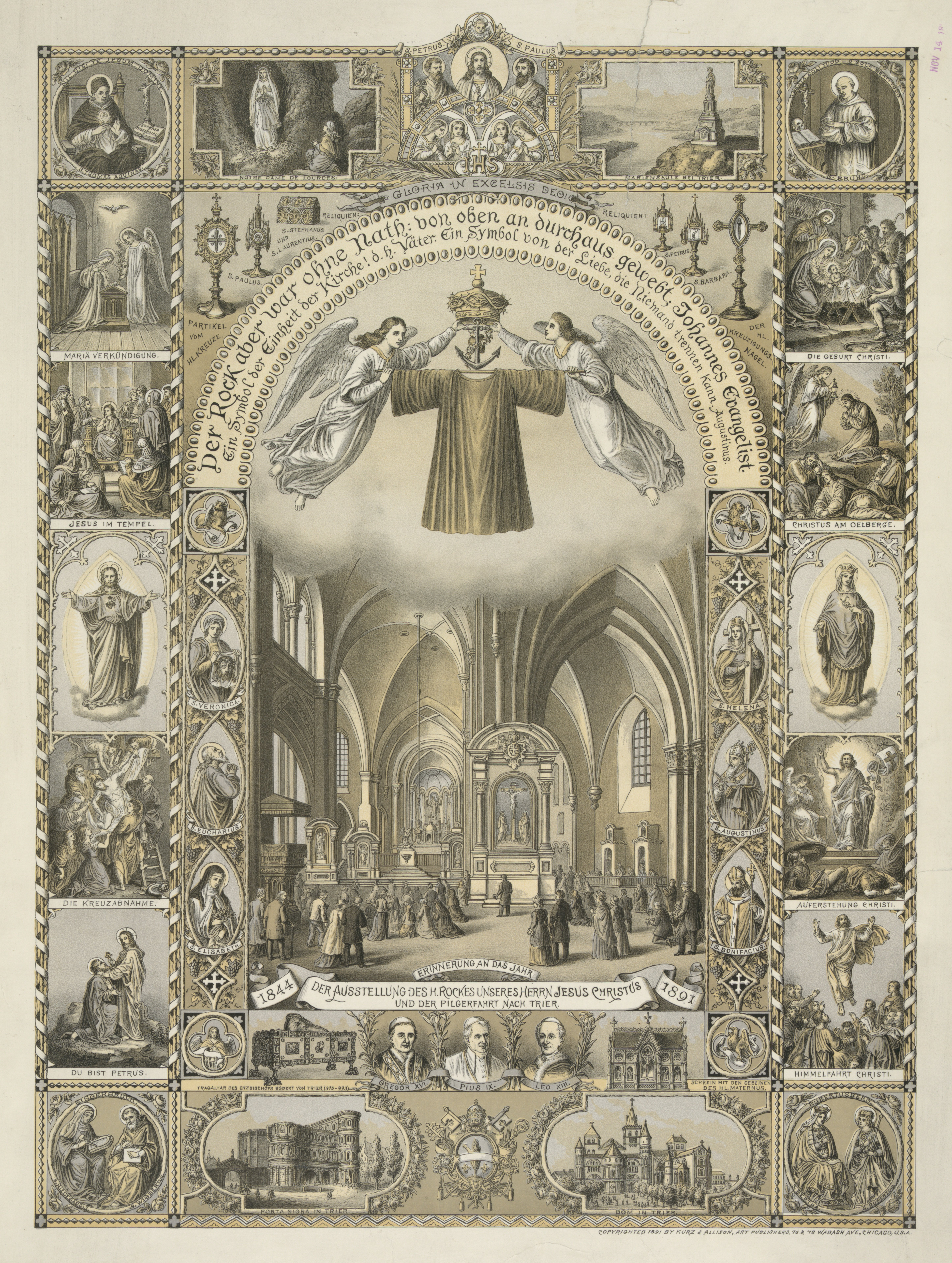 Card remembering the exhibition of the Seamless robe of Jesus in Trier (Germany) of 1844 and 1891.